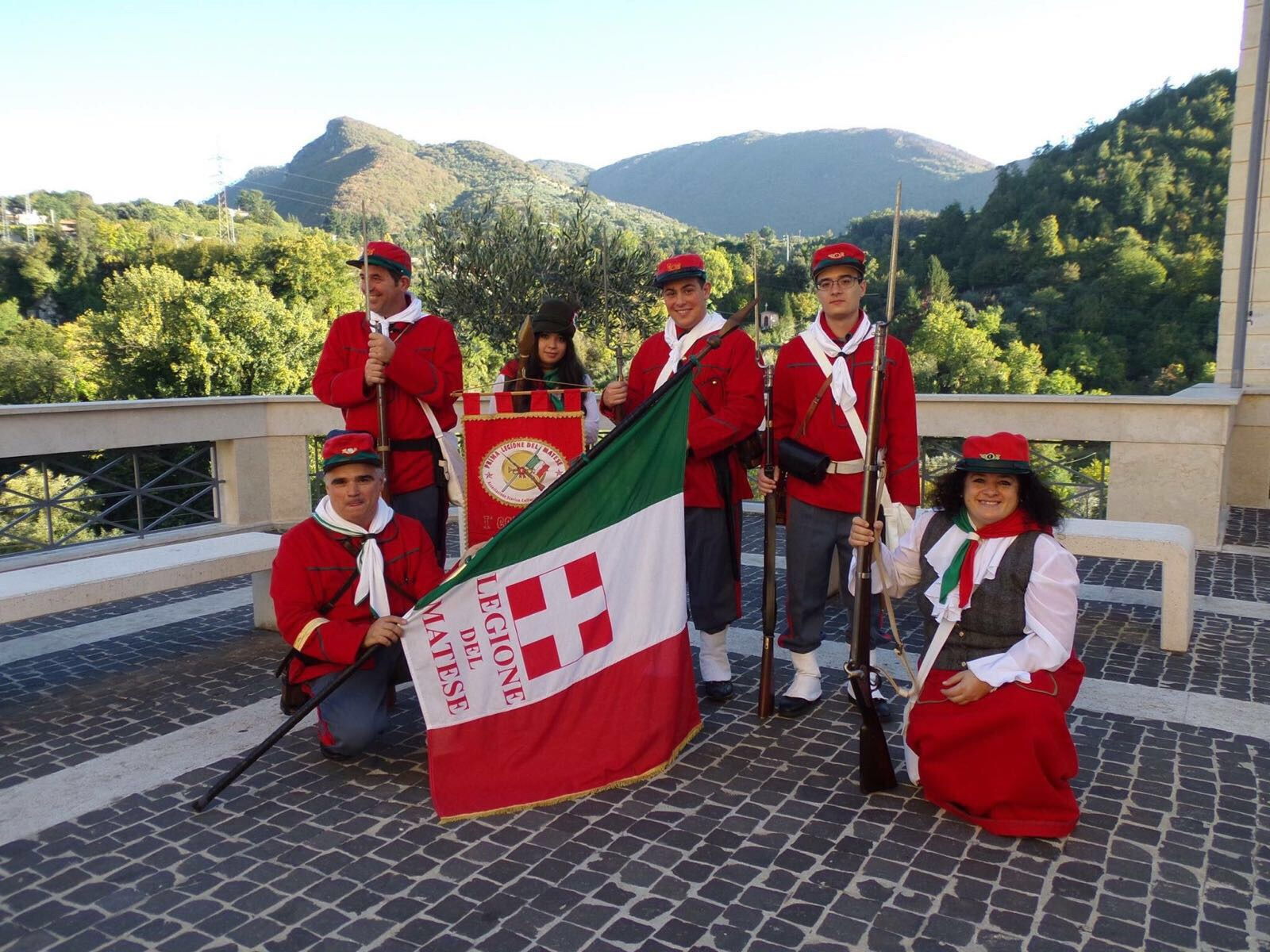 This is a picture of the Matese legion today